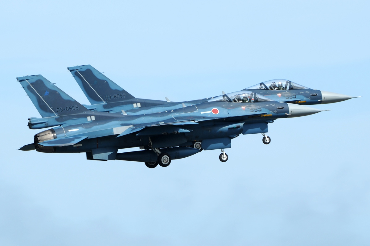 Pair take off for AGG demonstration. "Misawa Air Fest 2011"